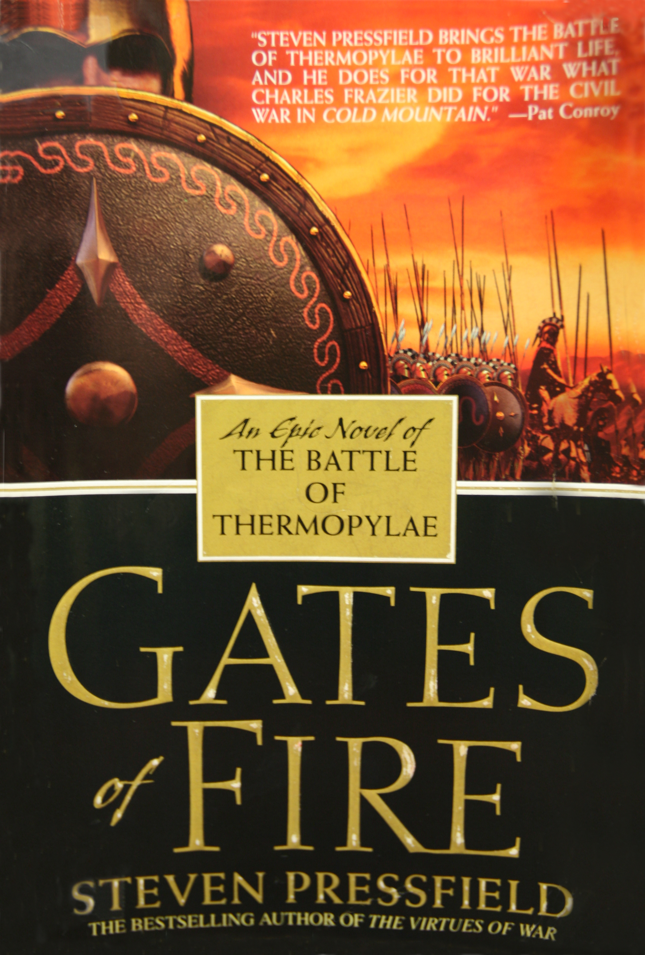 �Gates of Fire� by Steven Pressfield depicts the Battle of Thermopylae and the history of what led up to the battle itself. Much of Spartan culture closely resembles the belief systems of the Corps.